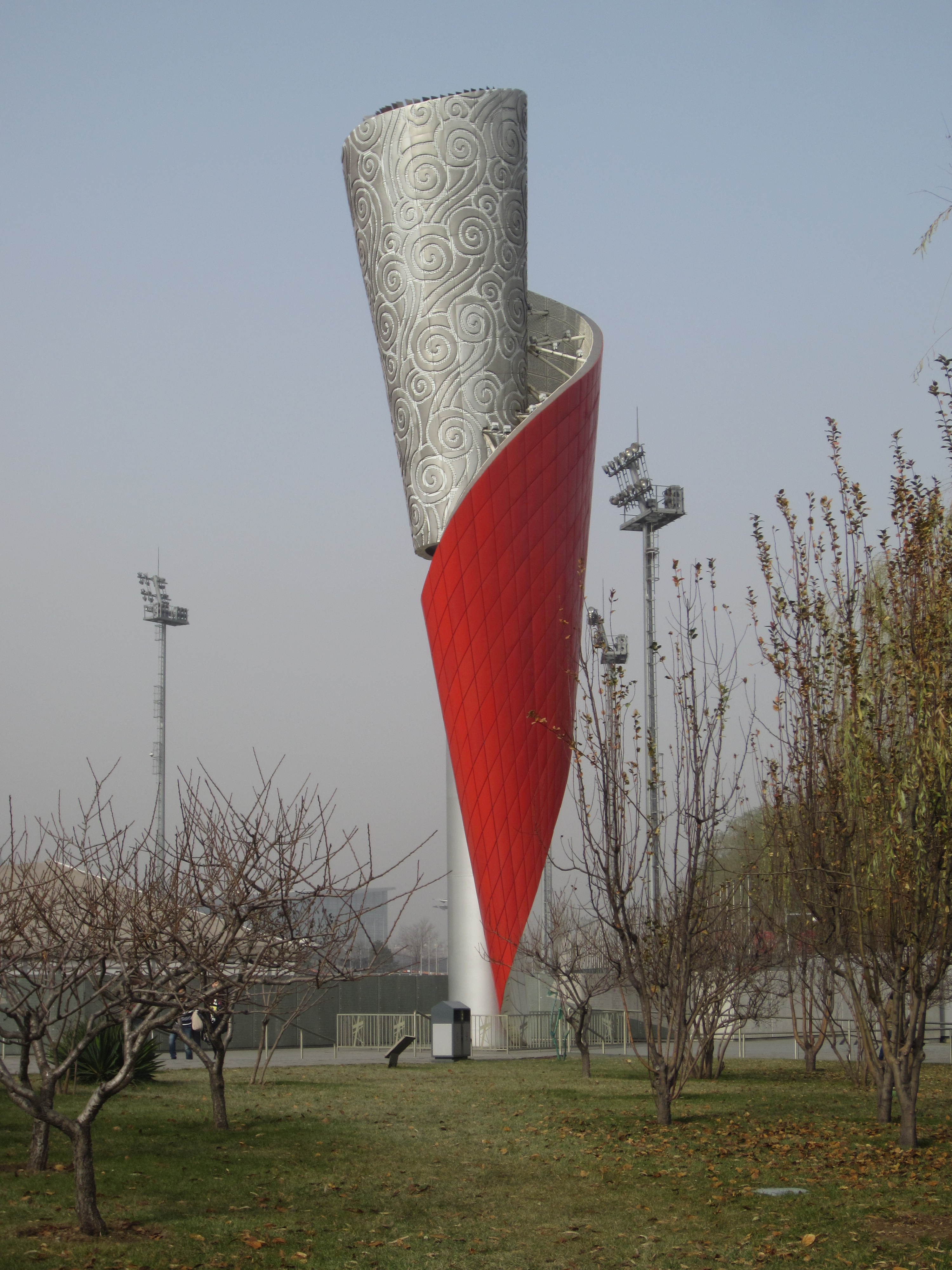 Beijing (November 2016)